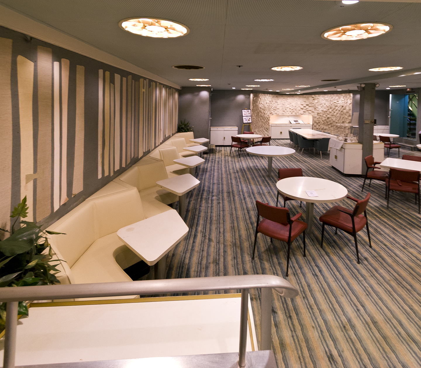 Dining room of the NS Savannah, Baltimore, Maryland, USA